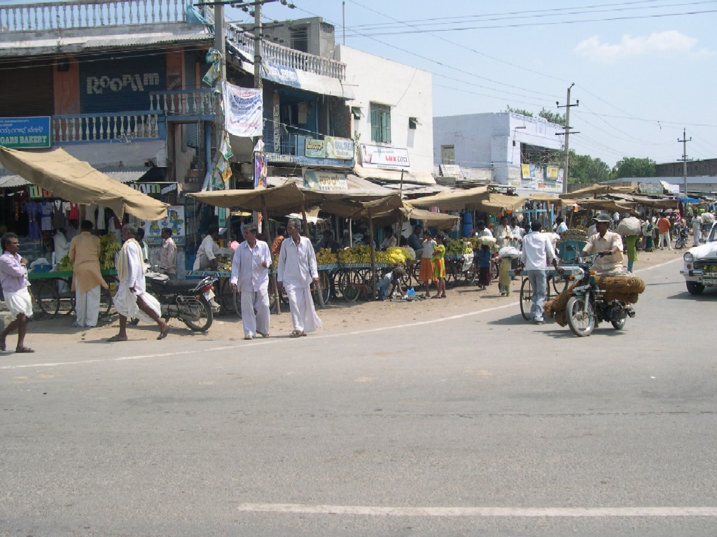 Road side Shops of Sindhanur